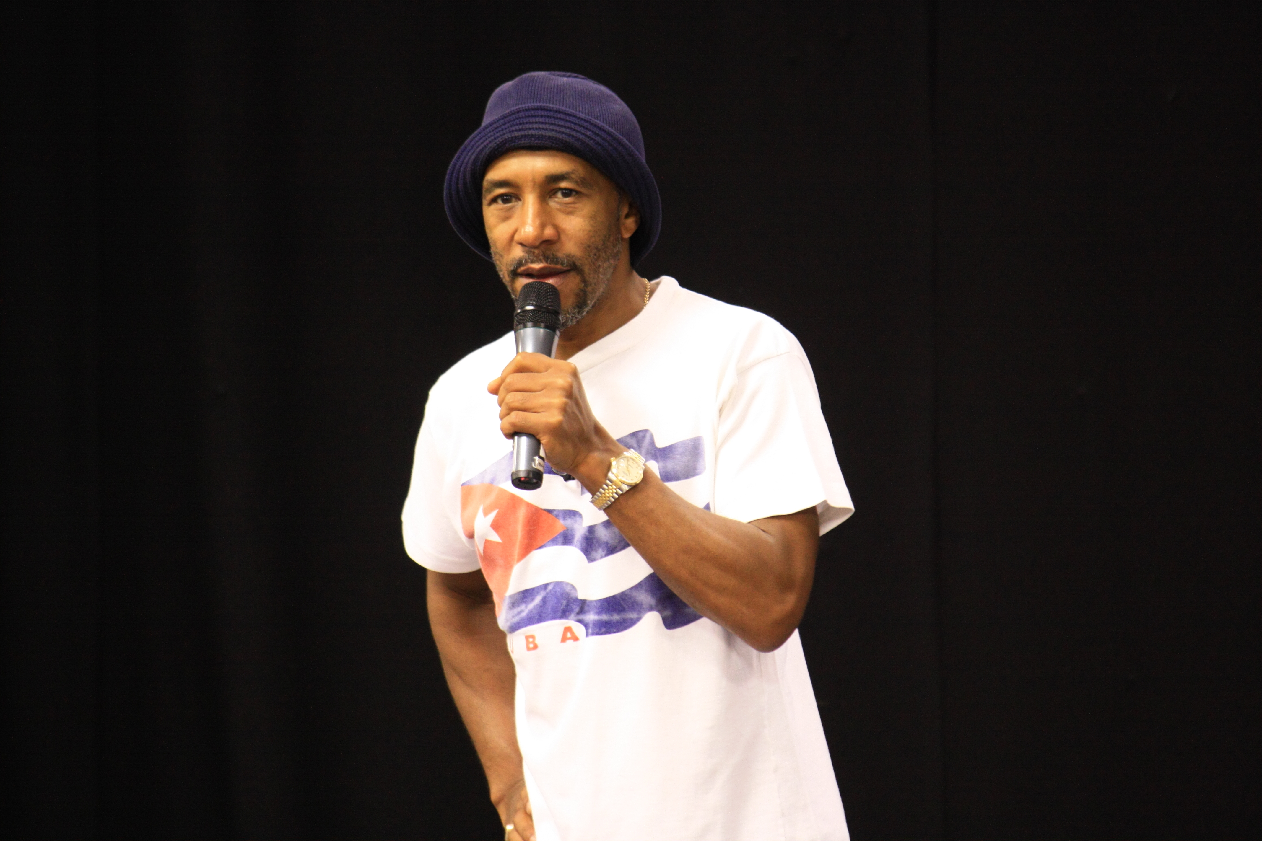 Danny John-Jules aka Cat from Red Dwarf at Dimension Jump XV, Birmingham UK